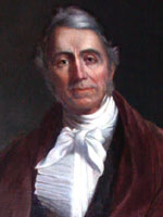 Massachusetts politician Marcus Morton.